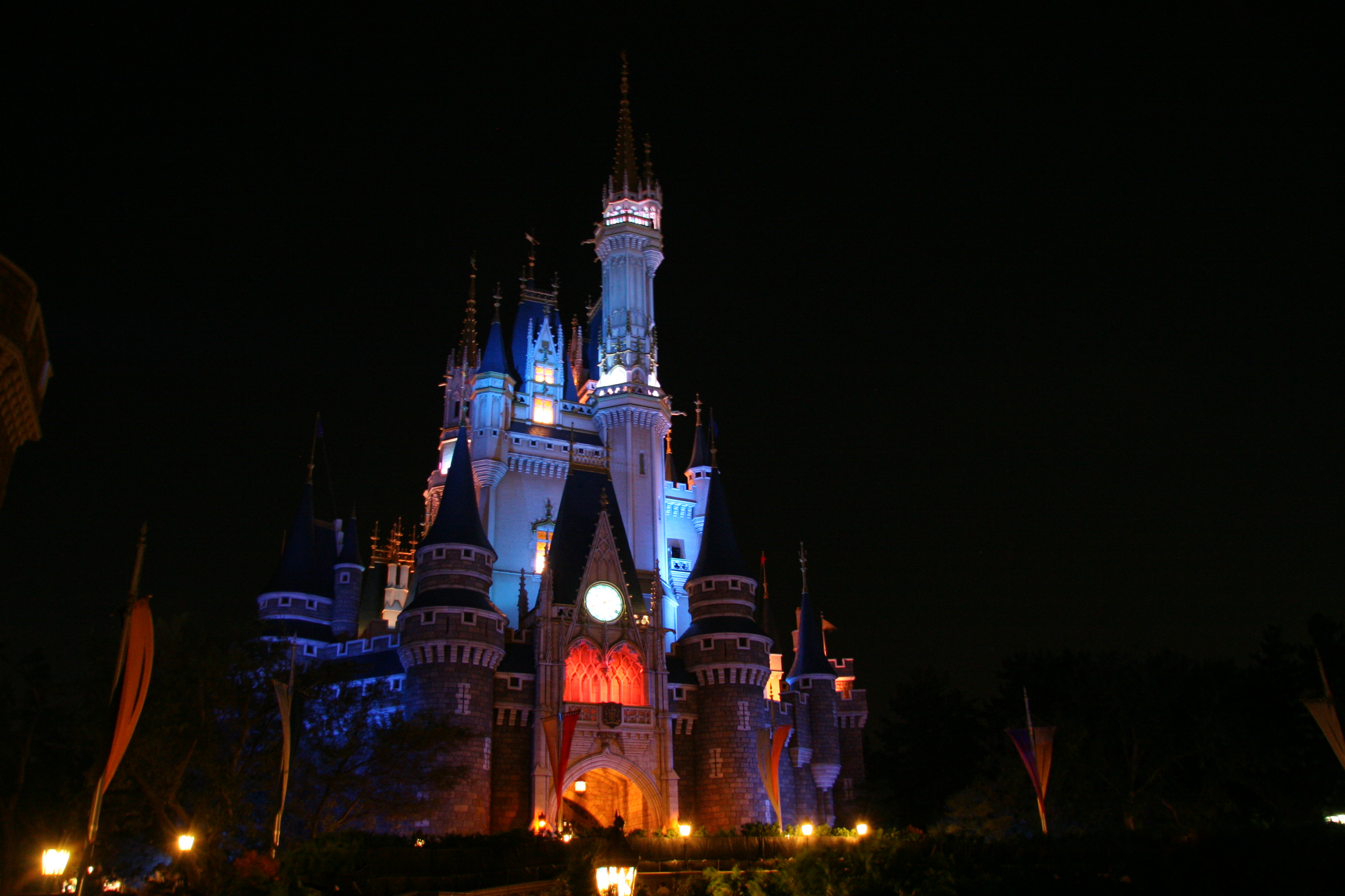 Tokyo Disneyland's Cinderella castle at night